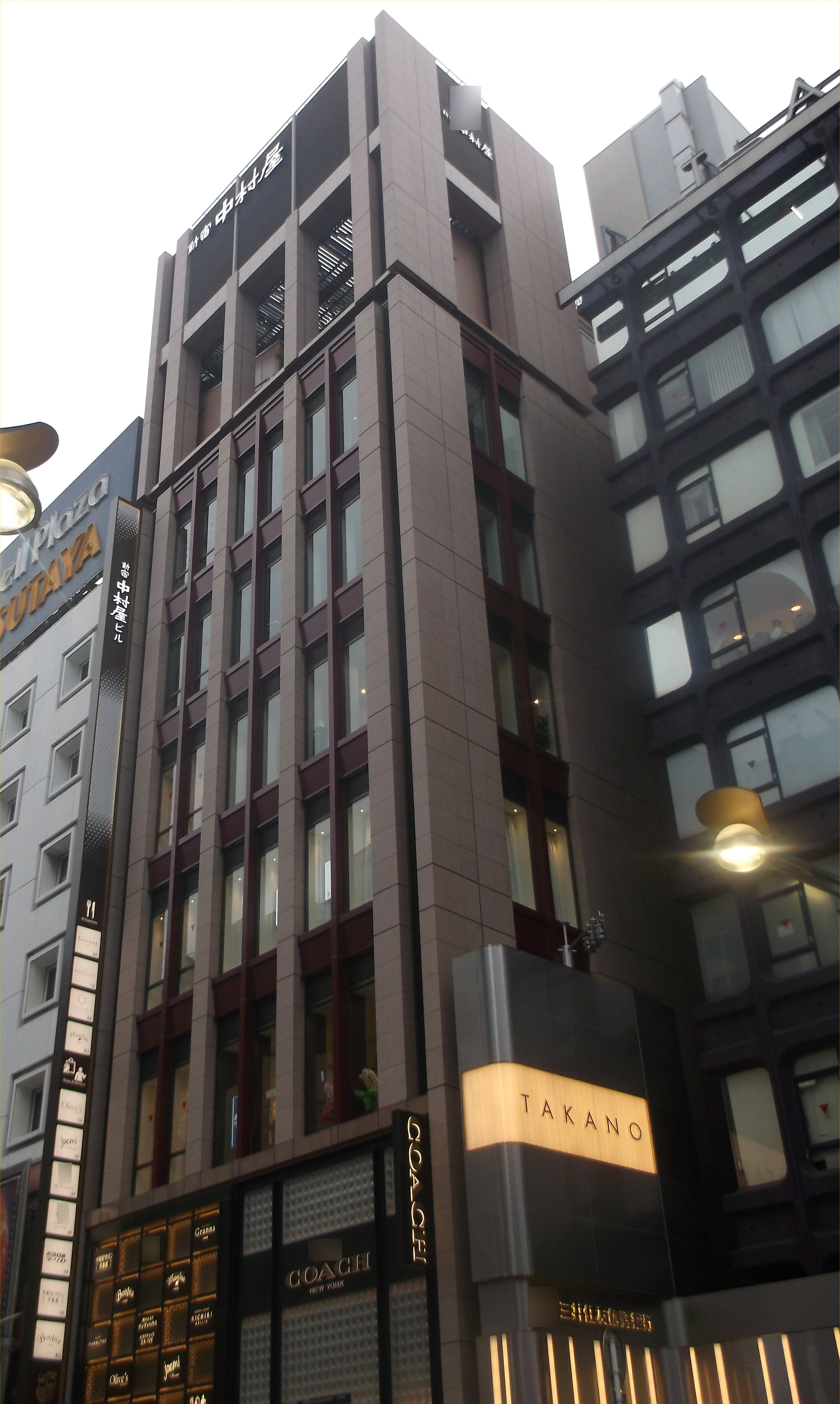 A photo of Shinjuku Nakamuraya head store,Shinjuku,Shinjuku-ku,Tokyo,Japan.